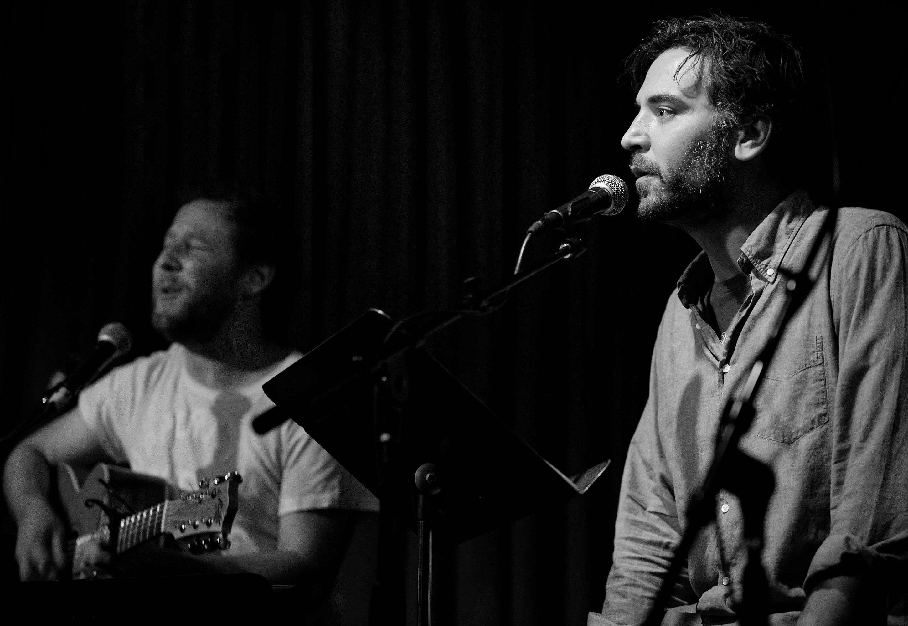 Love Songs for God and Women (Ben Lee and Josh Radnor) performing live at the Hotel Cafe in Hollywood, Los Angeles, California, on Friday, September 2nd, 2016. This was their second-ever public performance.